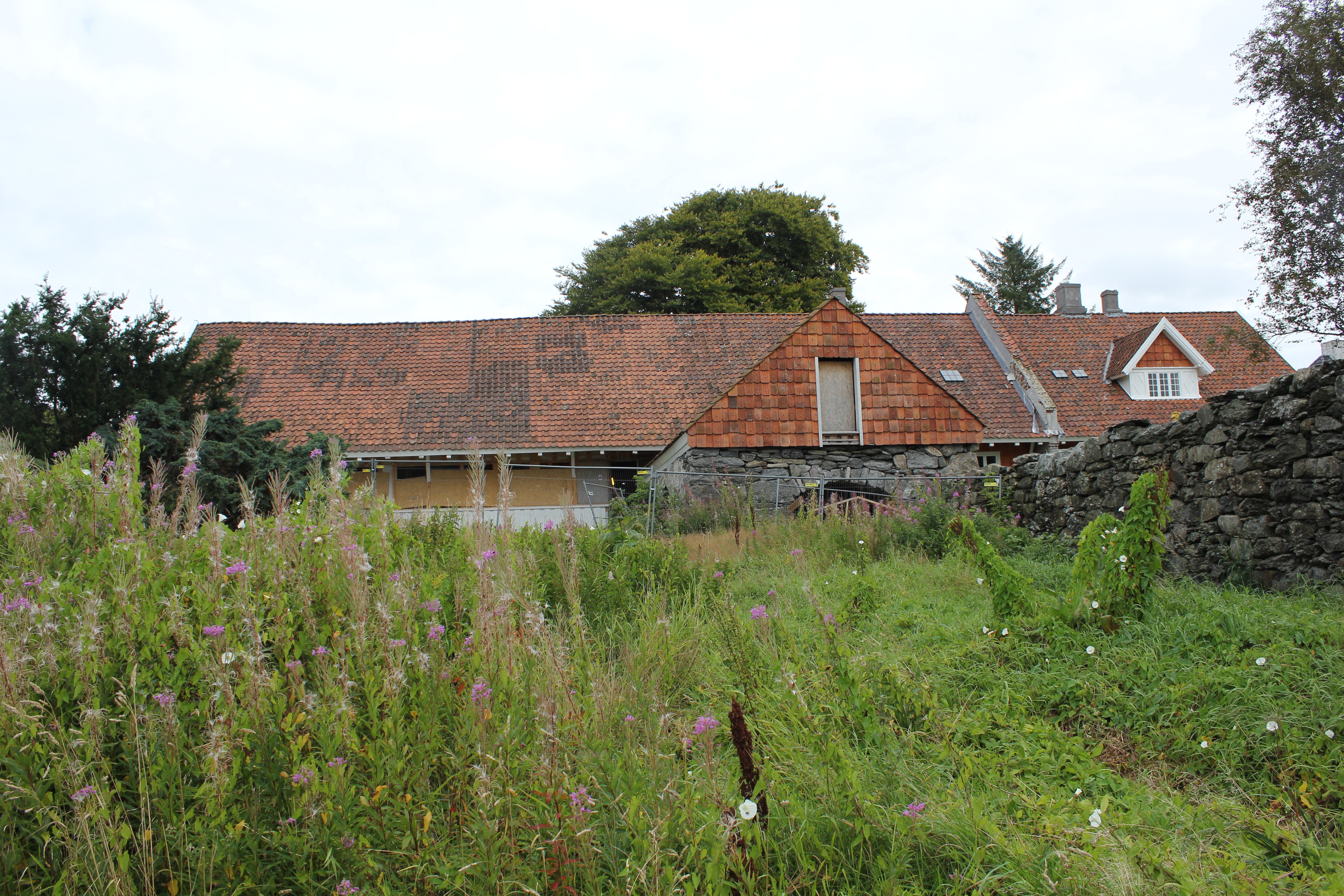 Holmeegenes, Stavanger Norway